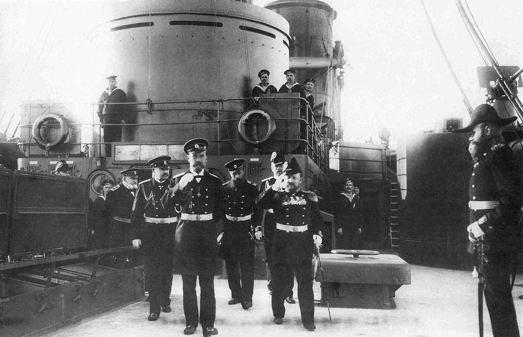 Imperator Nicholas II visit cruiser Riurik, 23 September 1908.